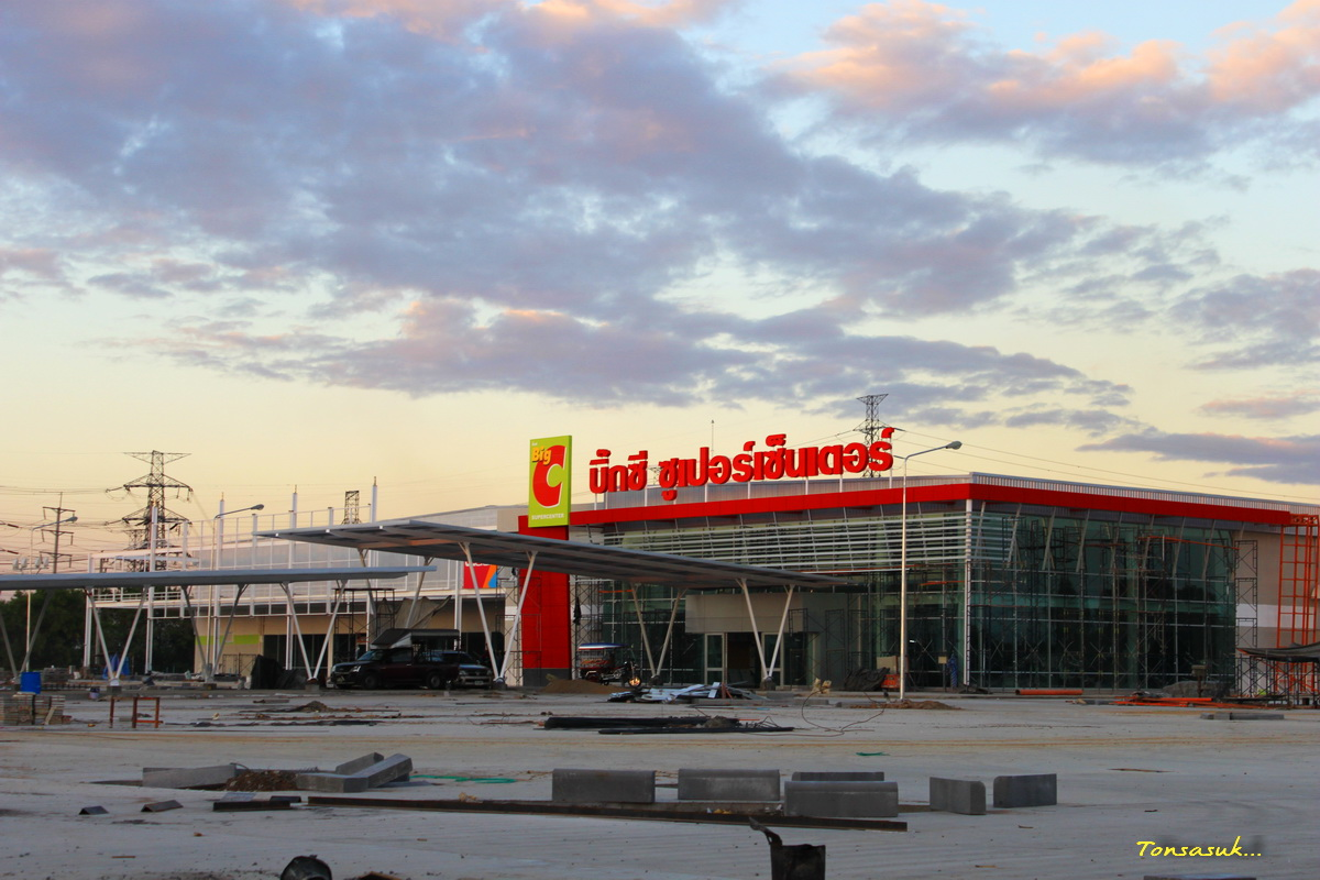 Big C Roi-Et